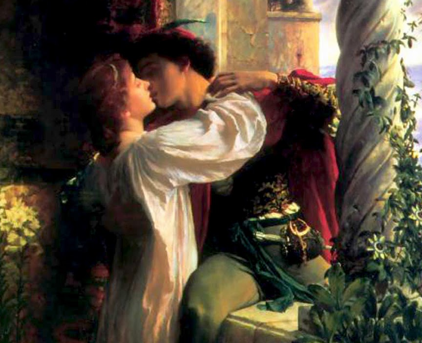 Detail of Romeo and Juliet: "The romance portrayed in this painting is phenomenal. They have eyes closed as to be completely lost in the moment. Juliet's arm on his neck pulls him in, even as his hand on her arm prevents this. The frustration and tragedy in the entire play is present in the painting. The passion is such, that romeo cannot even pass into the room before they embrace. To risk ALL for love. It is the ultimate expression of devotion. The desire to be loved is inherent in all humans whether or not one will (or can) admit this. The story that this painting eludes to, is a manifestation of these feelings." -Robert Plank